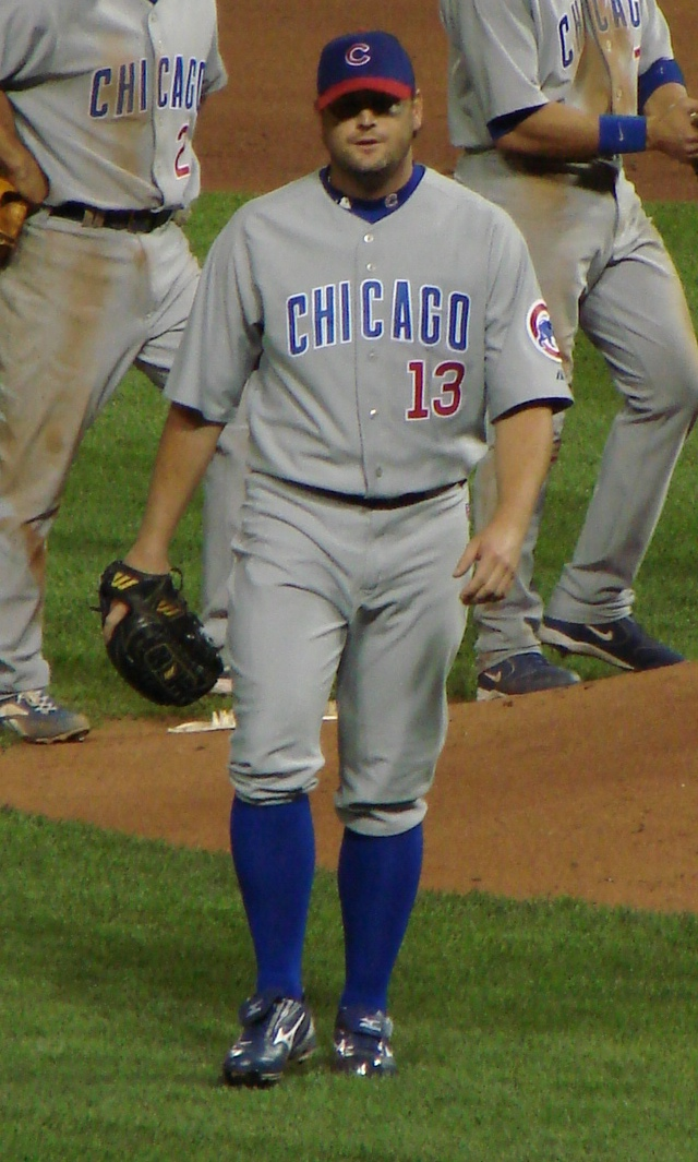 Will Ohman playing for the Chicago Cubs on April 27, 2007. 19:53, 14 July 2007 . . Mshake3 . . 640×1065 (269 KB)